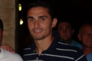 Picture of Roderick Briffa.